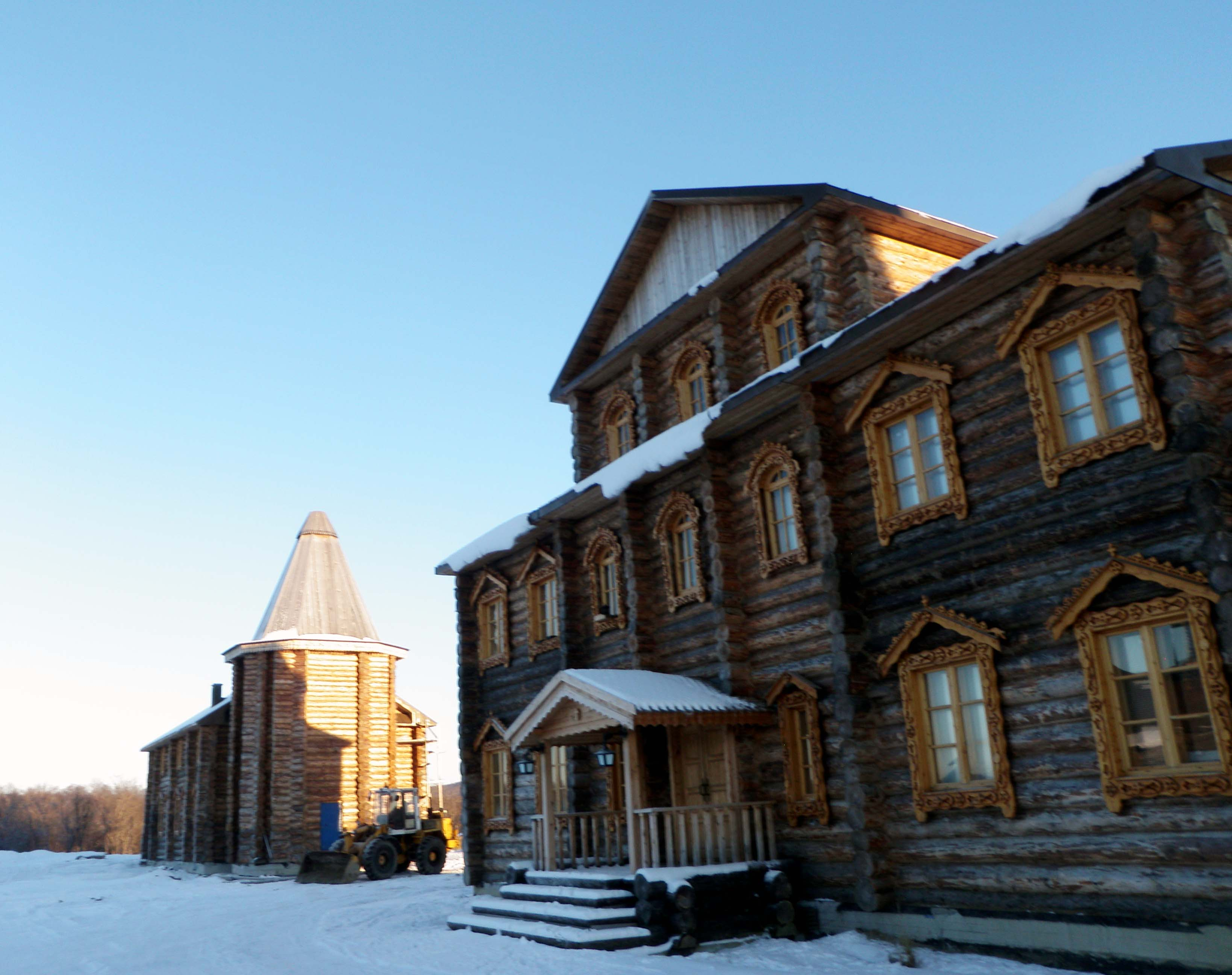 Buildings within the compound of Pechenga Monastery, in Murmansk Oblast, Russia.